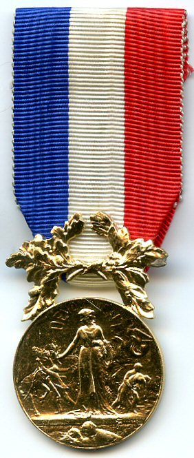 Honour medal for courage and devotion, bronze variant, obverse, (France)